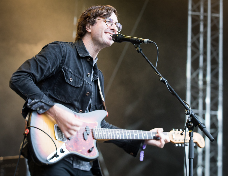 Martin Courtney of Real Estate at the main stage in the Vigeland Park. The concert was part of Piknik i Parken and took place on 23. June 2017 in Oslo. Lineup: Martin Courtney (guitar and vocal), Alex Bleeker (bass guitar and vocal), Jackson Pollis (drums), Matt Kallman (keyboard) and Julian Lynch (guitar).